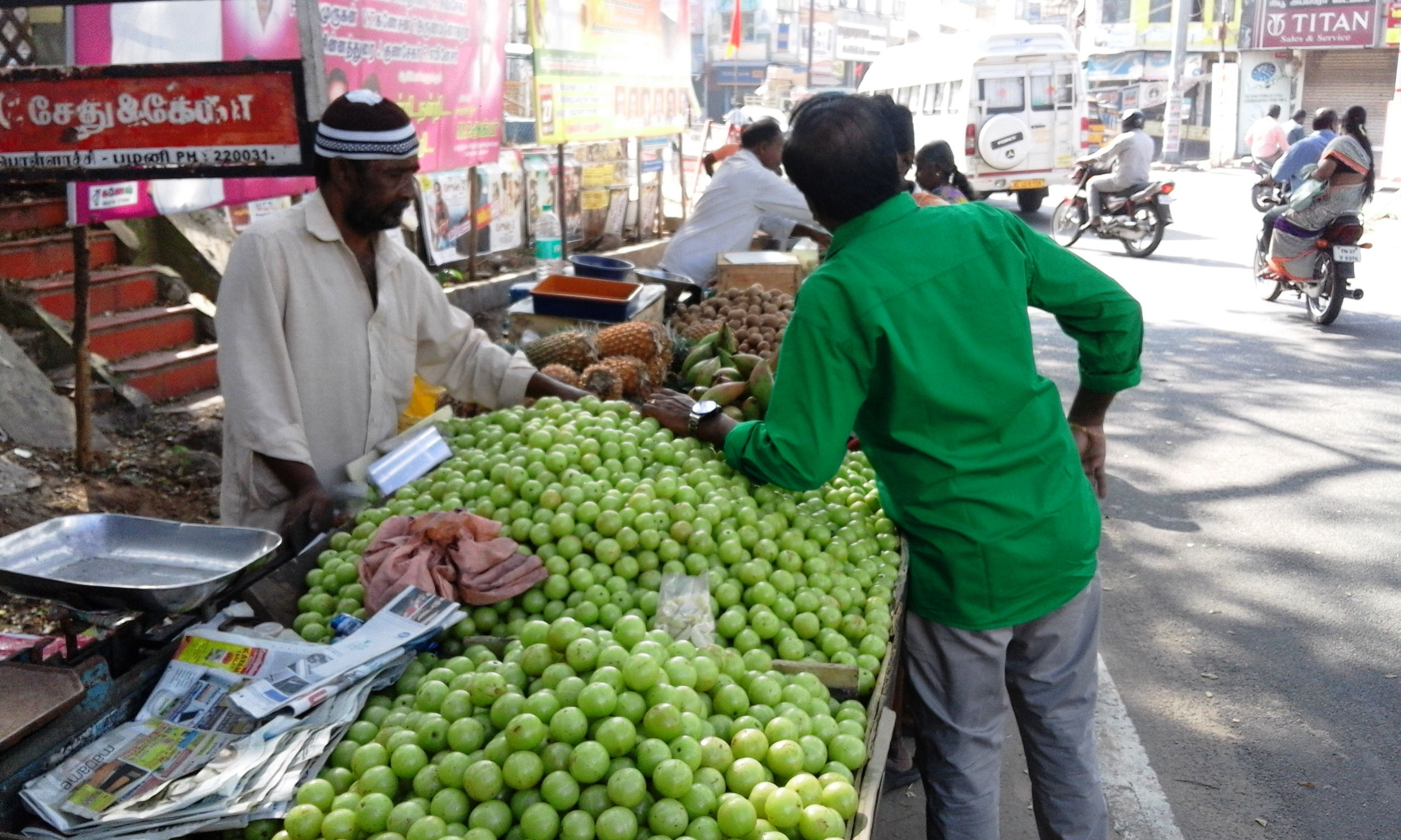 Palakkad to Pollachi by Train,Indai.